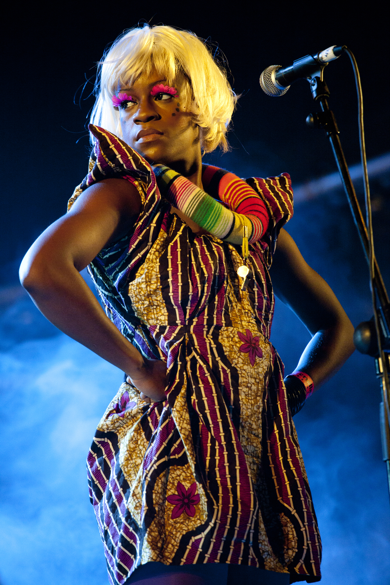 Ebony Bones backup singer at the Festival Cruïlla Barcelona 2010 in Barcelona.